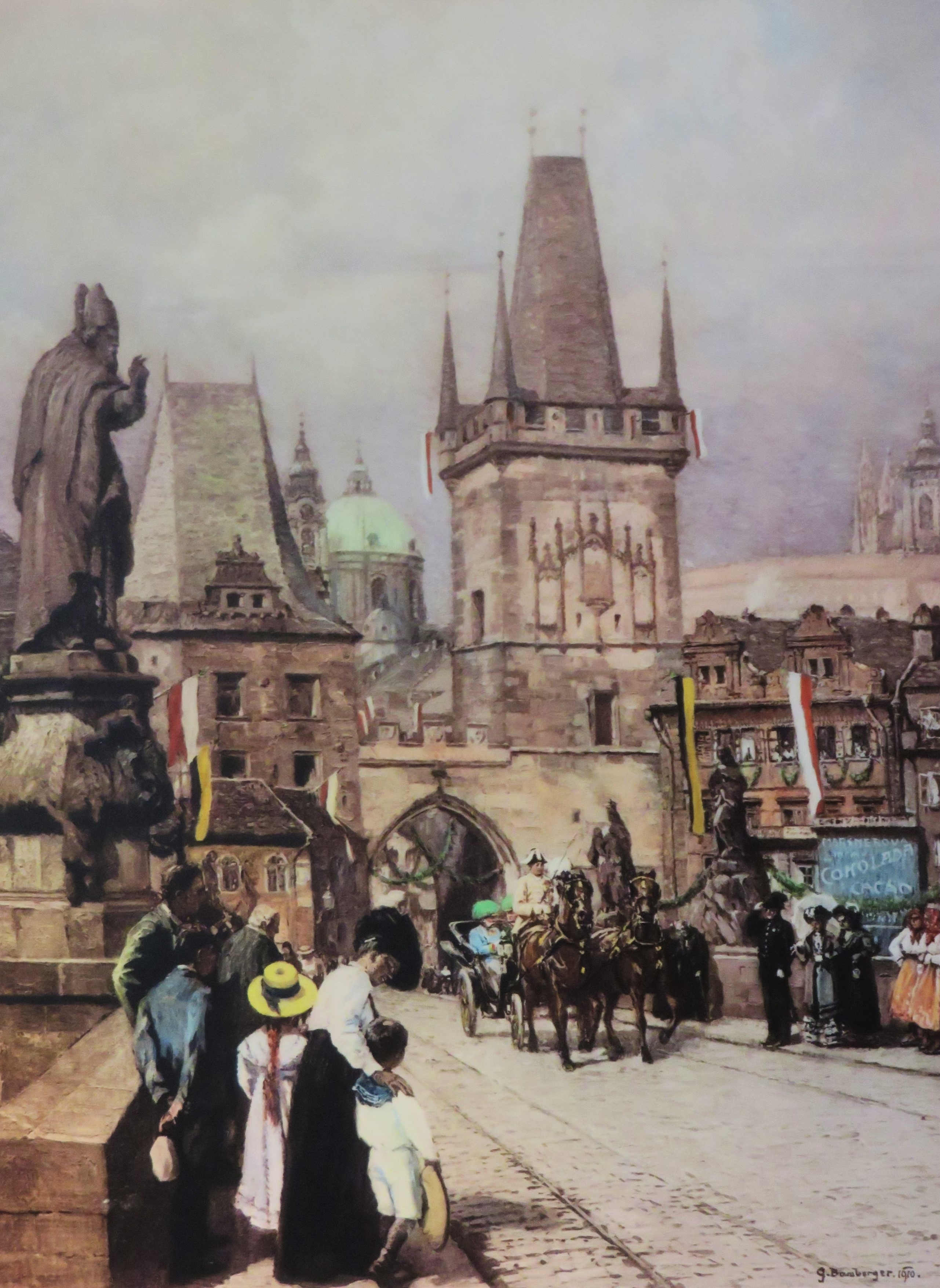 Austrian Emperor Francis Joseph crossing the Charles Bridge in Prague. Coloured fotogravure based on painting by Gustav Bamberger, 1910.